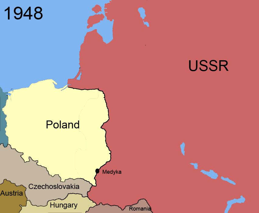 Poland 1948